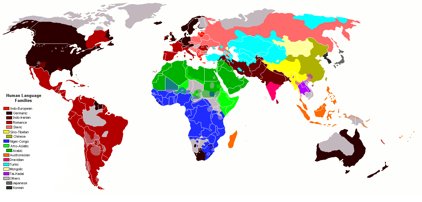 Primary Human Language Families Map